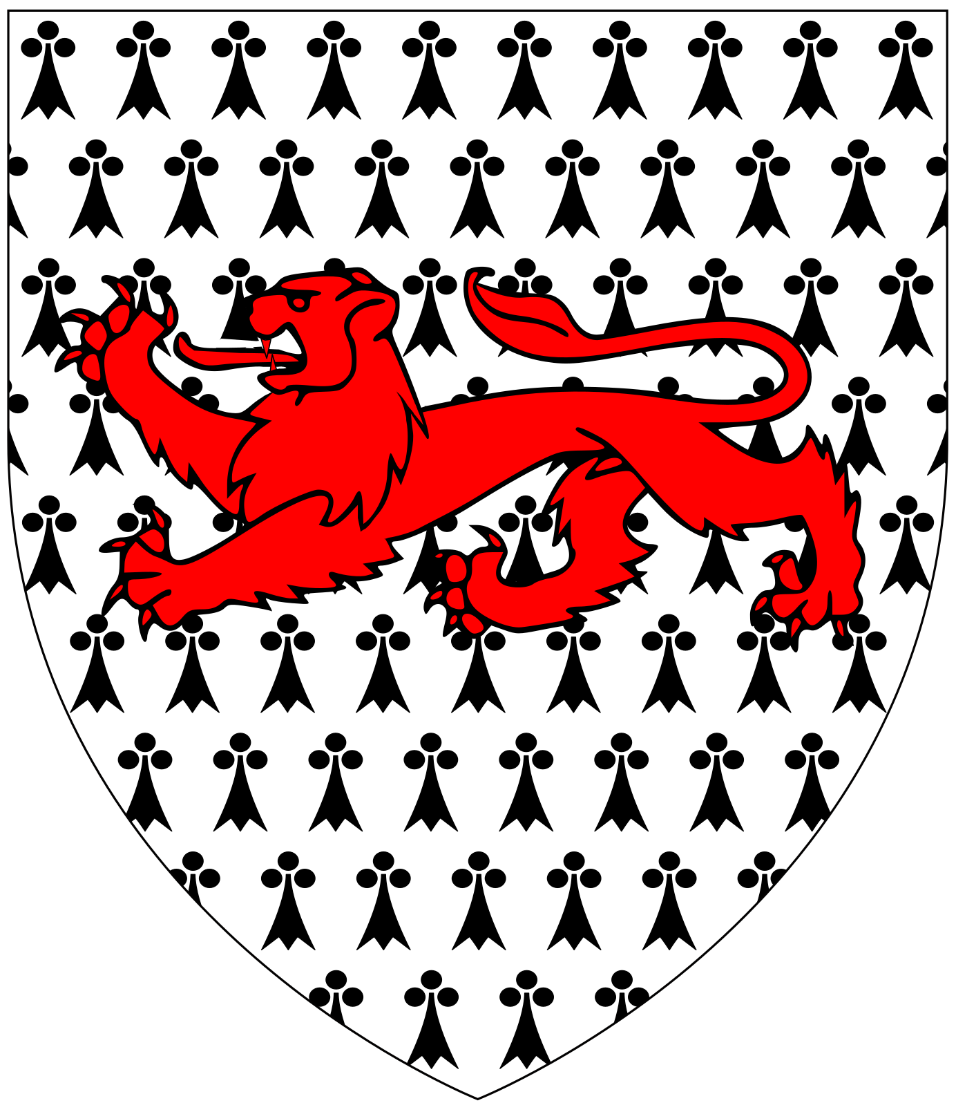 Arms of Drewe of The Grange, Broadhembury, Devon: Ermine, a lion passant gules (Vivian, Lt.Col. J.L., (Ed.) The Visitation of the County of Devon: Comprising the Heralds' Visitations of 1531, 1564 & 1620, Exeter, 1895, p.306)